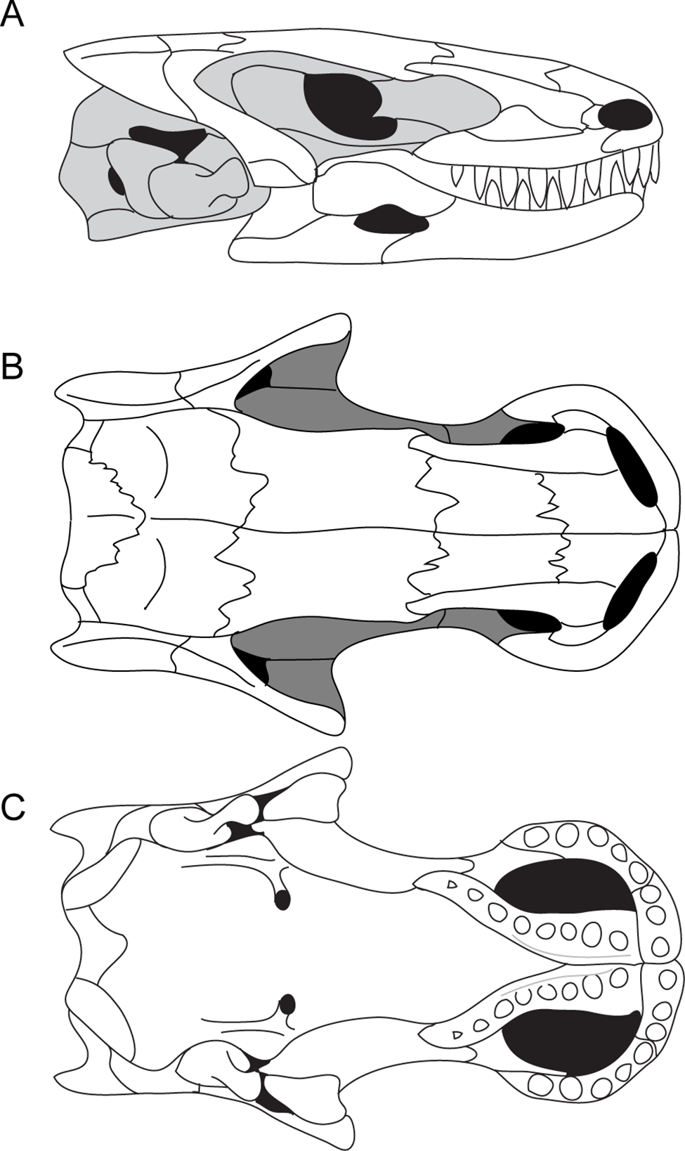 Reconstruction of the skull of Brachydectes newberryi. A, lateral view; B, dorsal view; C, palatal view. Image not to scale.